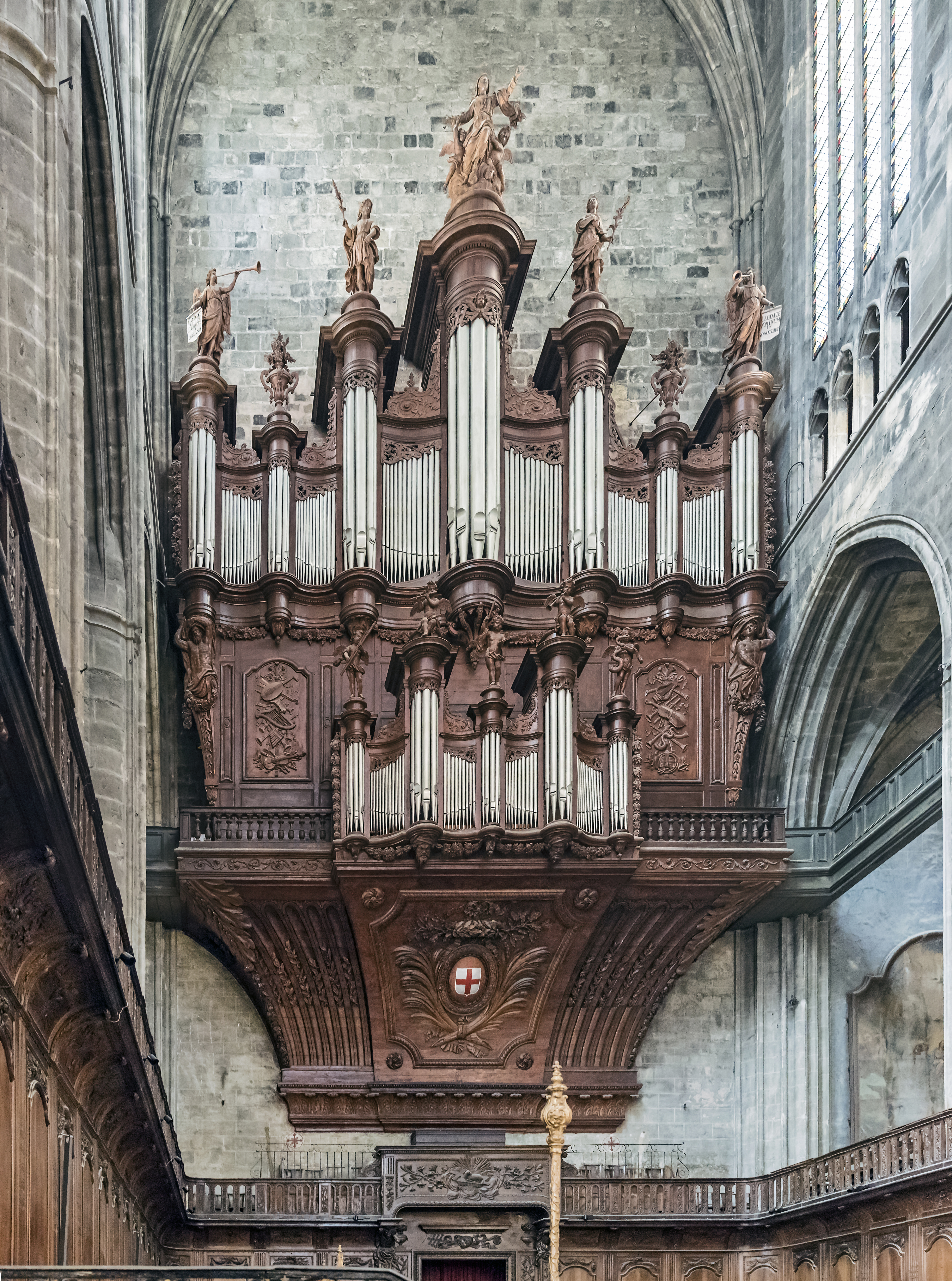 Gallery organ of Cathedral Saint-Just-et-Saint-Pasteur Narbonne. Built by Christophe Moucherel 1741 reconstructions: Jean-François L'Épine 1759 Augustine Zeiger (Lyon) 1844 Théodore.Puget & Fils 1856 Maurice Puget partial 1927. The weapons Chapter visiblent are the center of the large console. (height: 23 m, width 12 m, 14 m platform for the ground). The instrument includes 67jeux over 4 manuals and pedal.